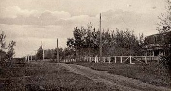 Whitewood residential street 1912.